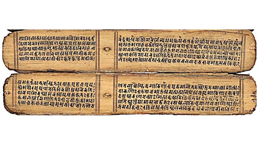 संस्कृतम्: arthashastra